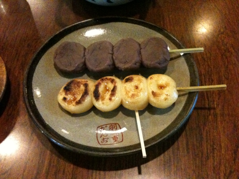 Habutae Dango. Visit the official website (Japanese).